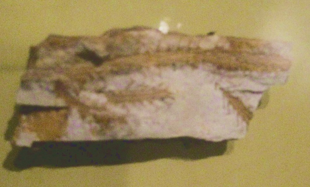 Crop of file in filename